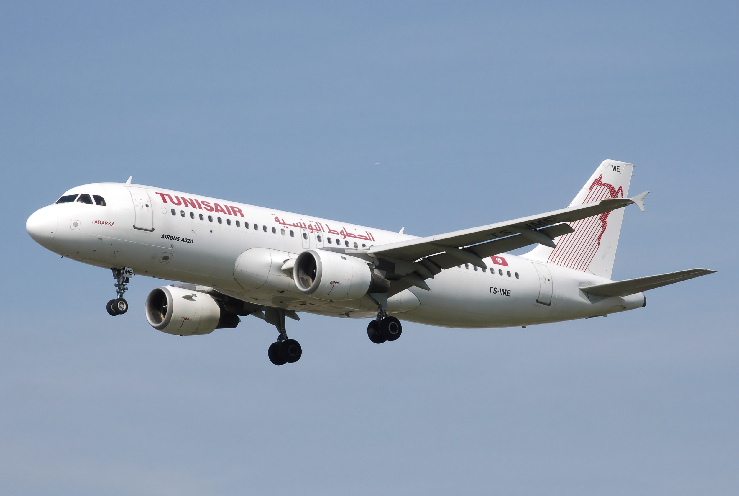 Tunisair Airbus A320-200 (TS-IME) lands at London Heathrow Airport.